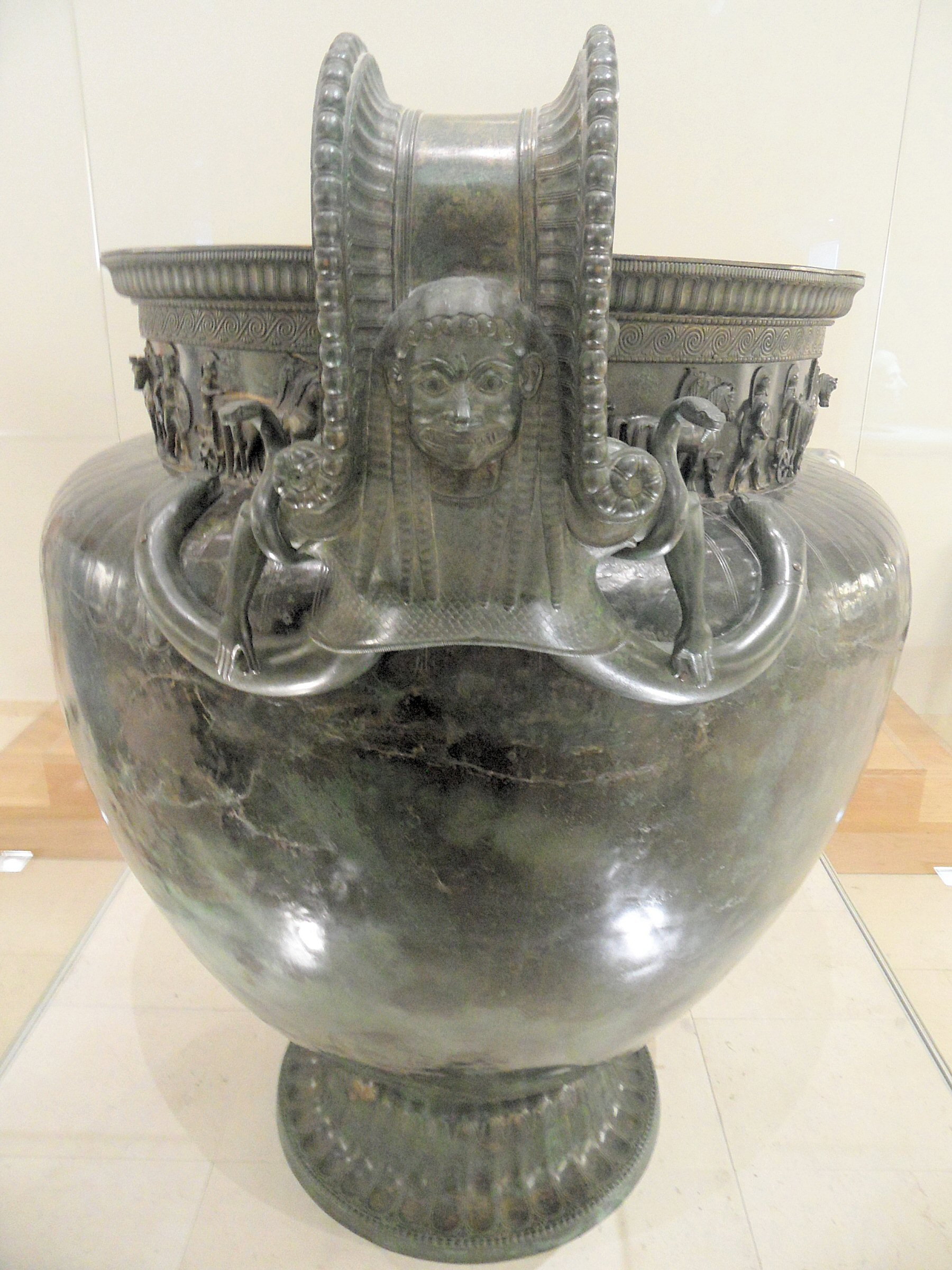 The Vix krater, on display at the Musée du Pays Châtillonnais in Châtillon-sur-Seine, France